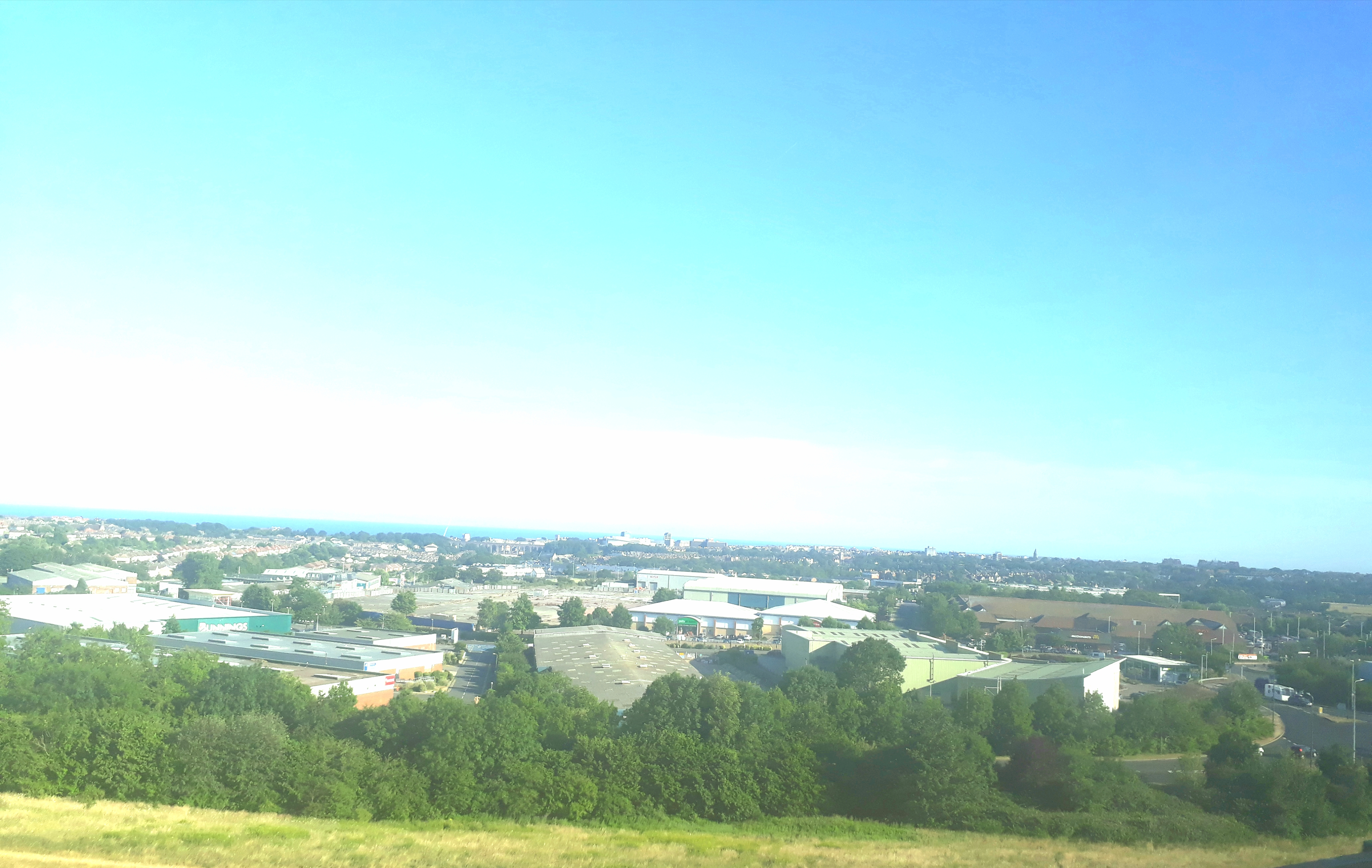 A picture of the skyline of Folkestone, Kent